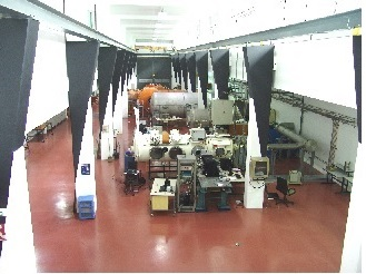 Picture of the experimental plateform FAST, ICARE CNRS. Contact: Viviana LAGO, head of the FAST team, ICARE